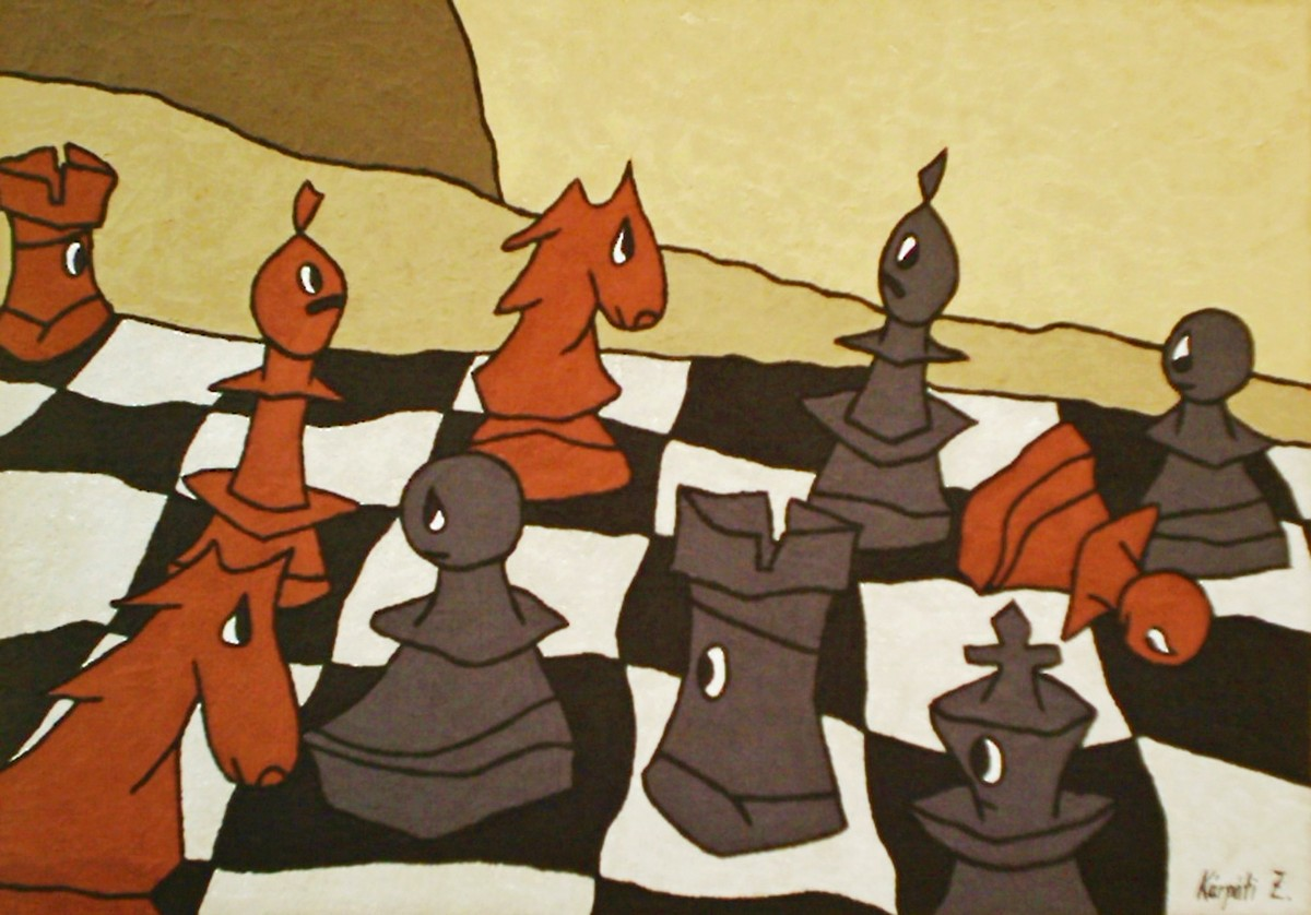 Zoltán Kárpáti Pawn victim